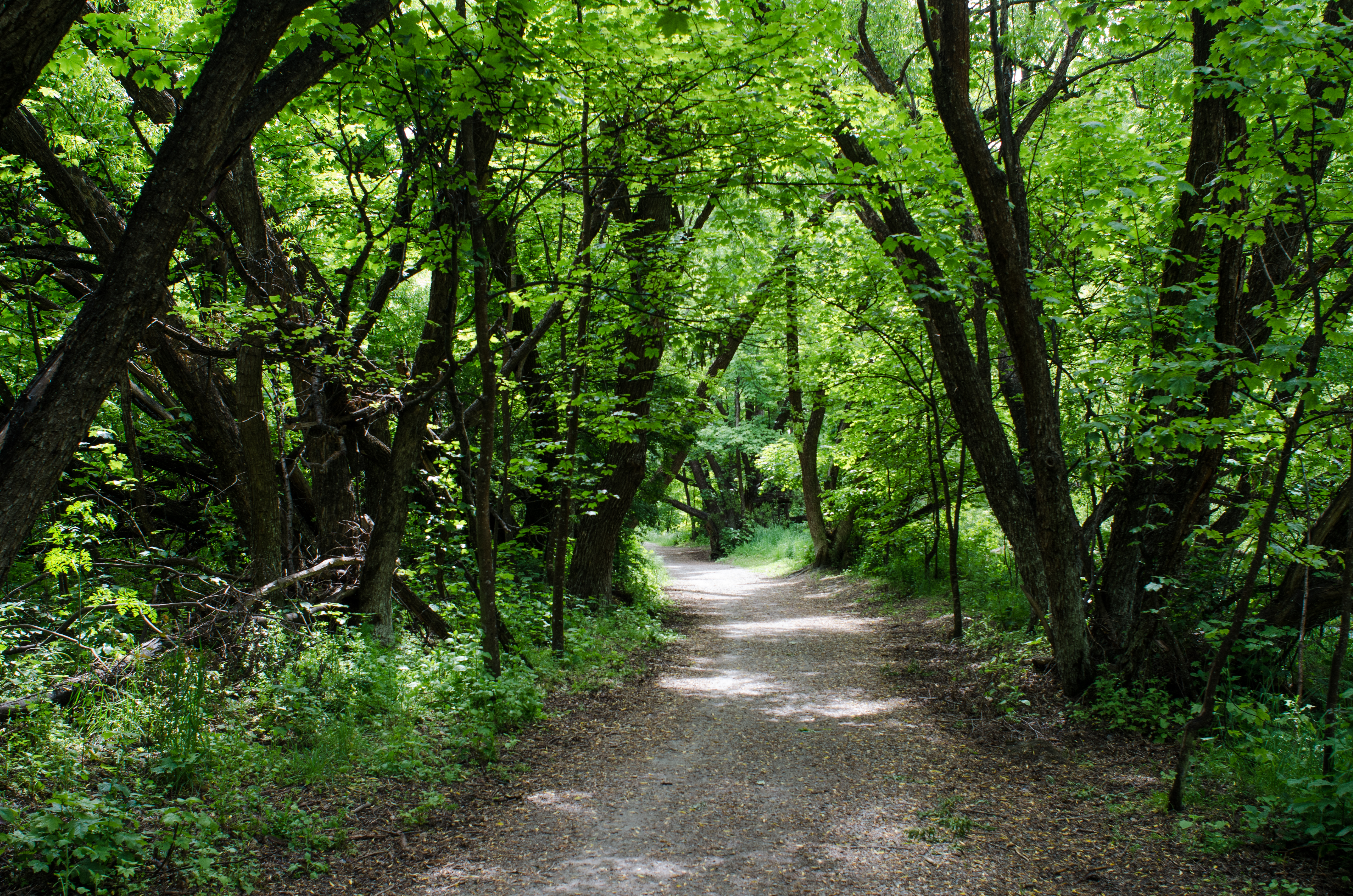 Arrowtown Recreational Reserve